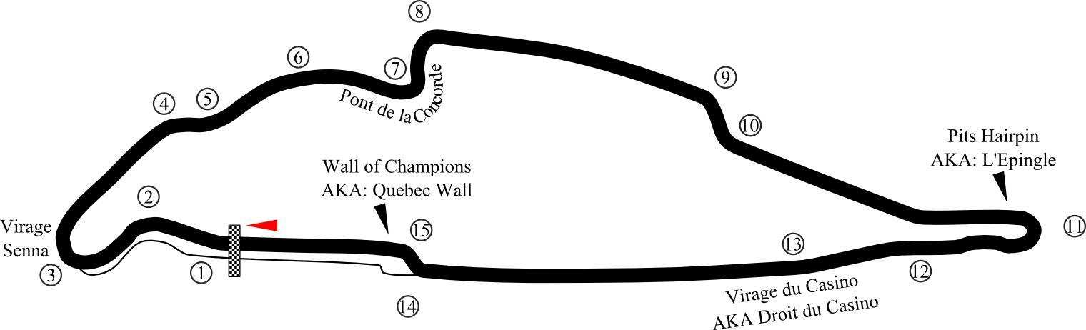 Track map for Circuit Gilles Villeneuve. This PNG version of image:Circuit Gilles Villeneuve.svg is for those with browsers like IE7 that don't support SVG.